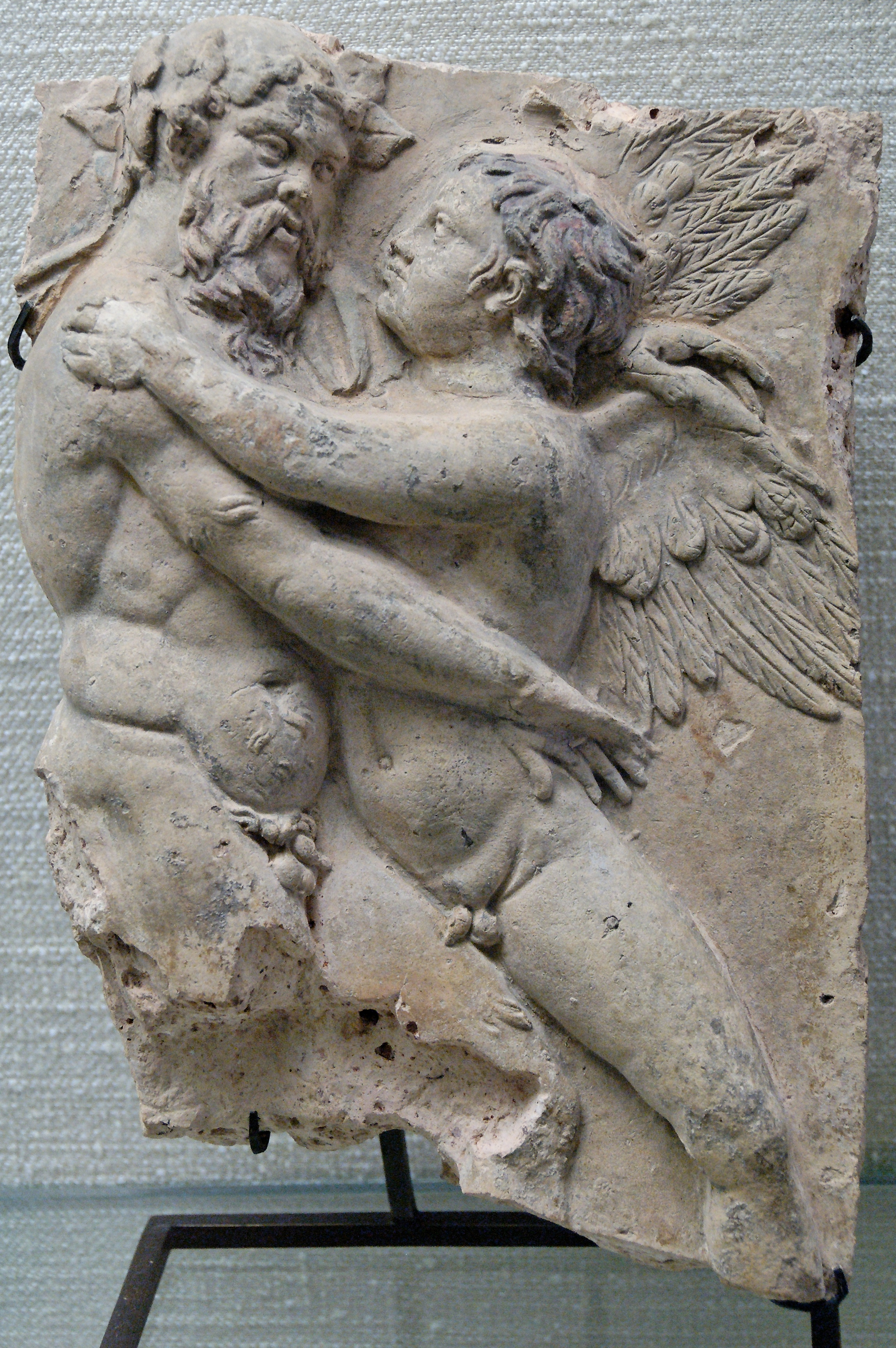 Silenus and Eros. Fragment from a terracotta relief, early 1st century AD. Found in 1760 at Scrofano, Latium.